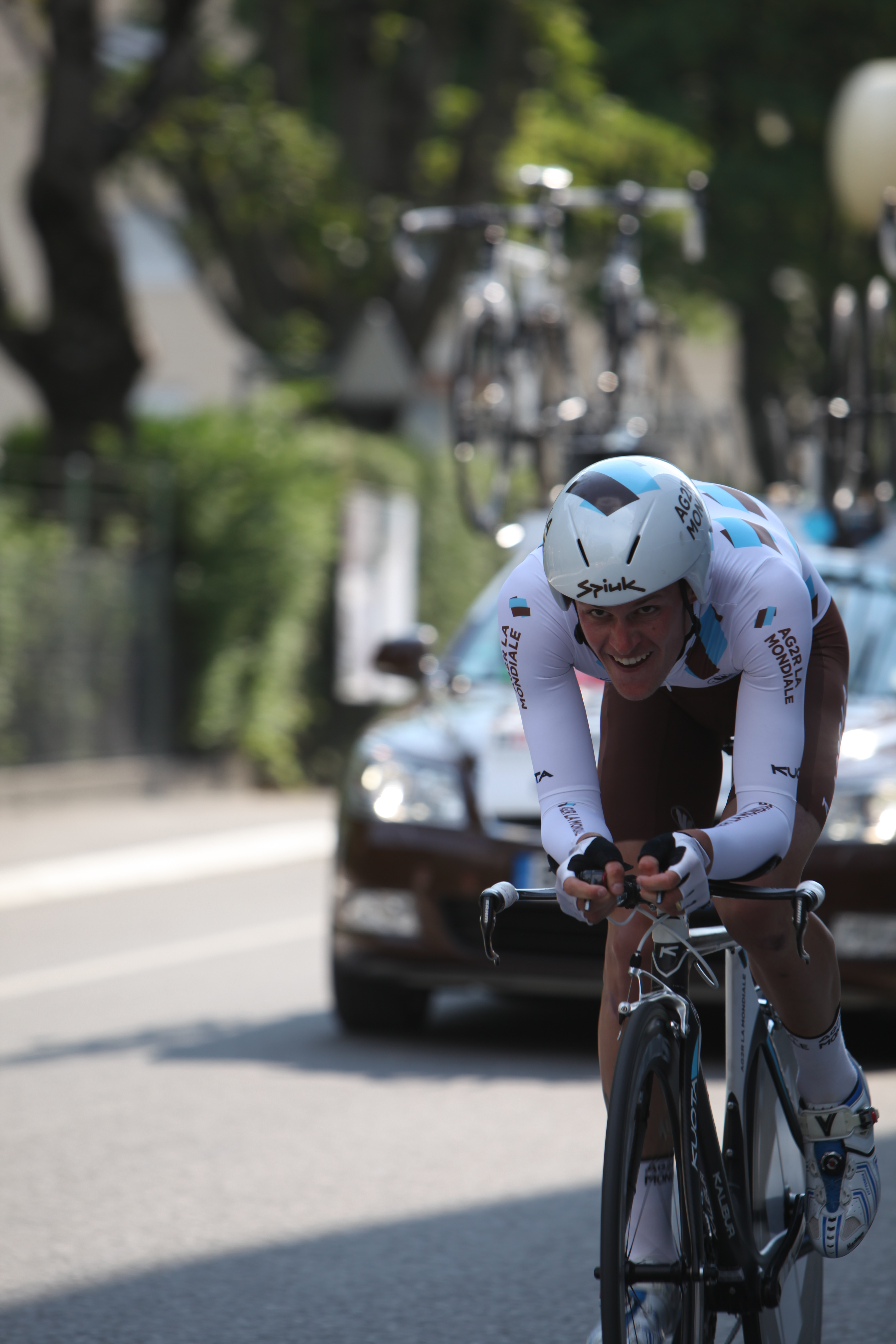 Maxime Bouet at the prologue of the Tour de Romandie 2011